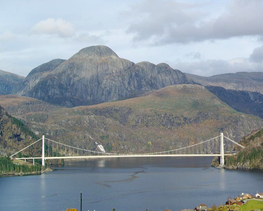 Panorama of the Norwegian village Dale i Sunnfjord. Visible in the background is the new Dalsfjordbridge.